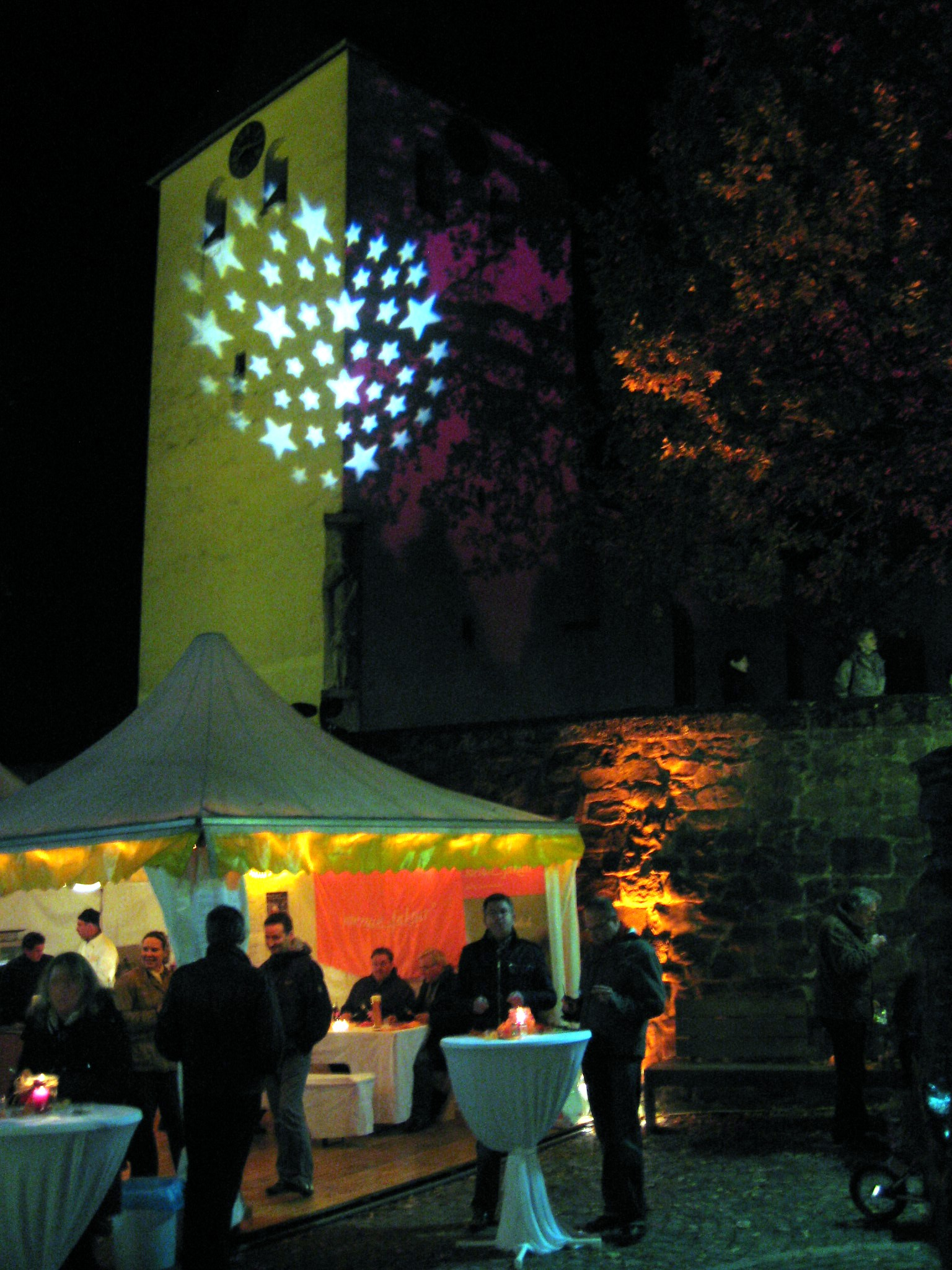 This is a photograph of an architectural monument. It is on the list of cultural monuments of Bünde